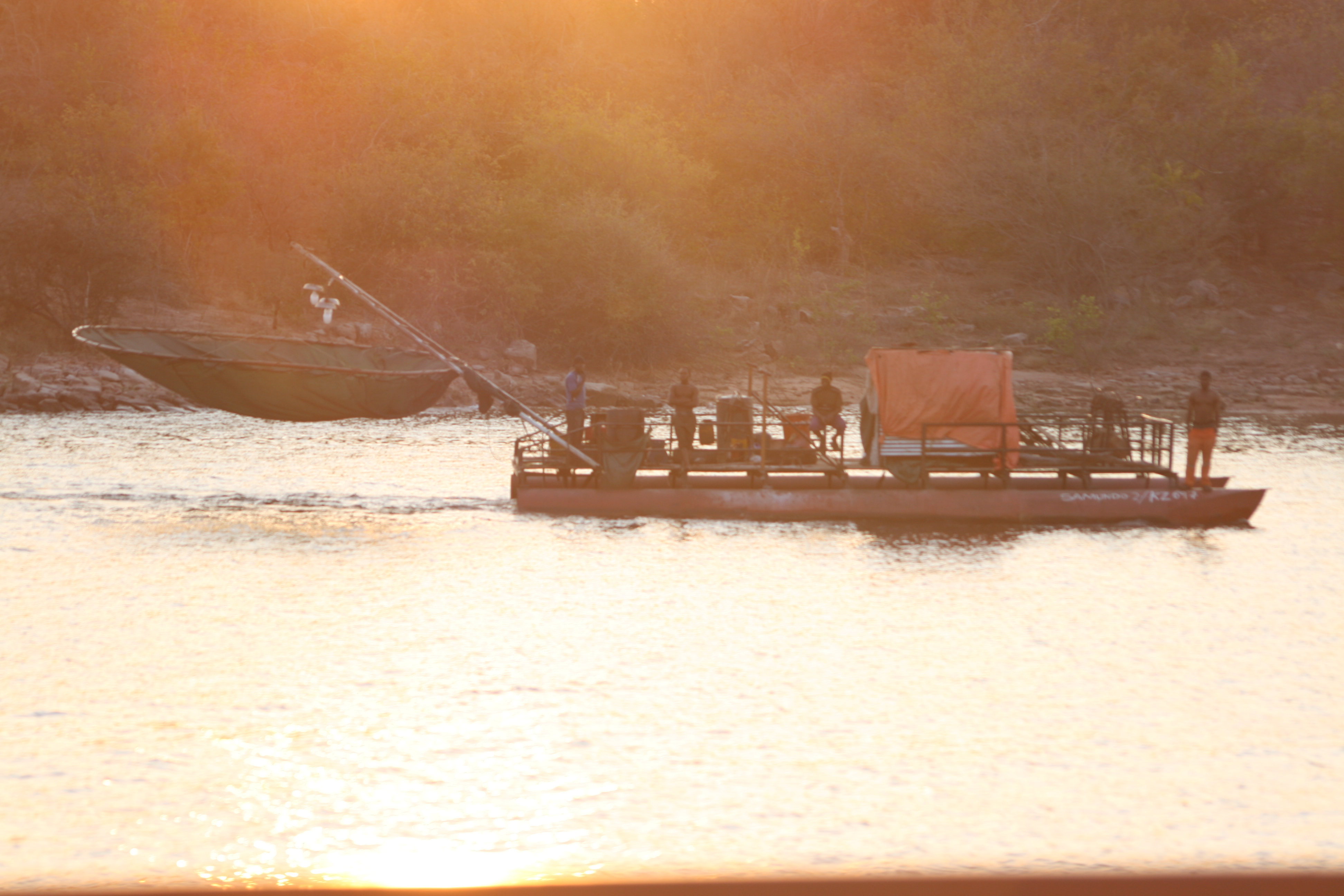 A Photo of a Kapenta Rig on lake Kariba on the Zimbabwe/Zambia border.